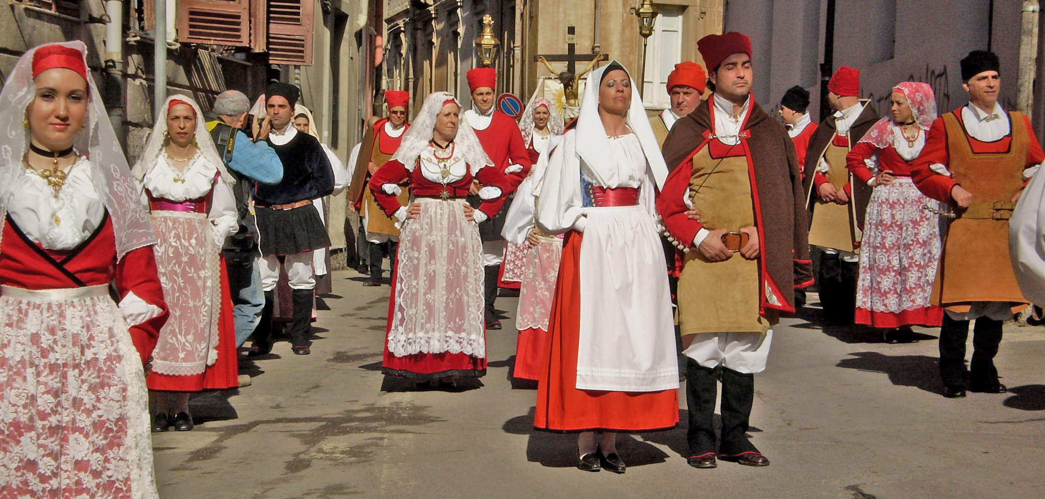 Traditional sassarese costumes, sardinia